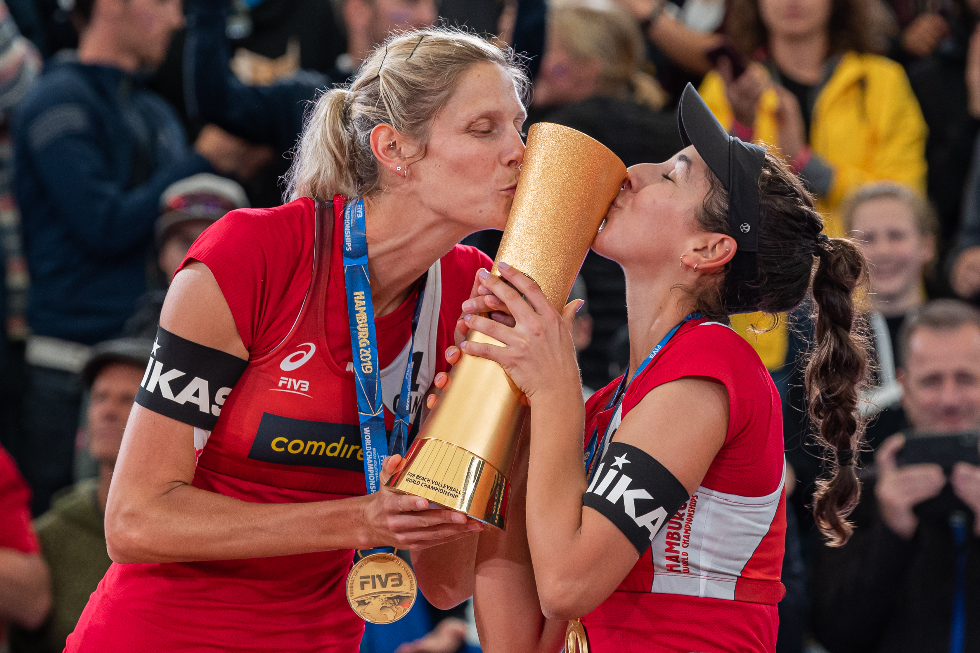 2019 Beach Volleyball World Championships; left-to-right: Sarah Pavan and Melissa Humana-Paredes (CAN, Canada) are kissing the trophy; award ceremony, winner, world champions